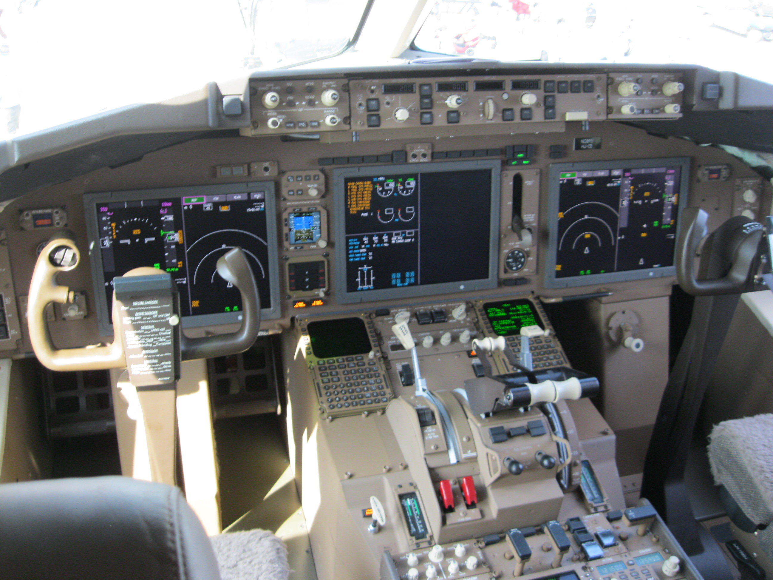 Glass Cockpit found on new FedEx 767-300F's